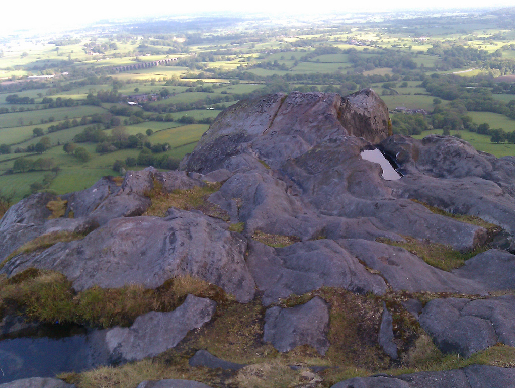 Bosley Cloud crags at the summit.